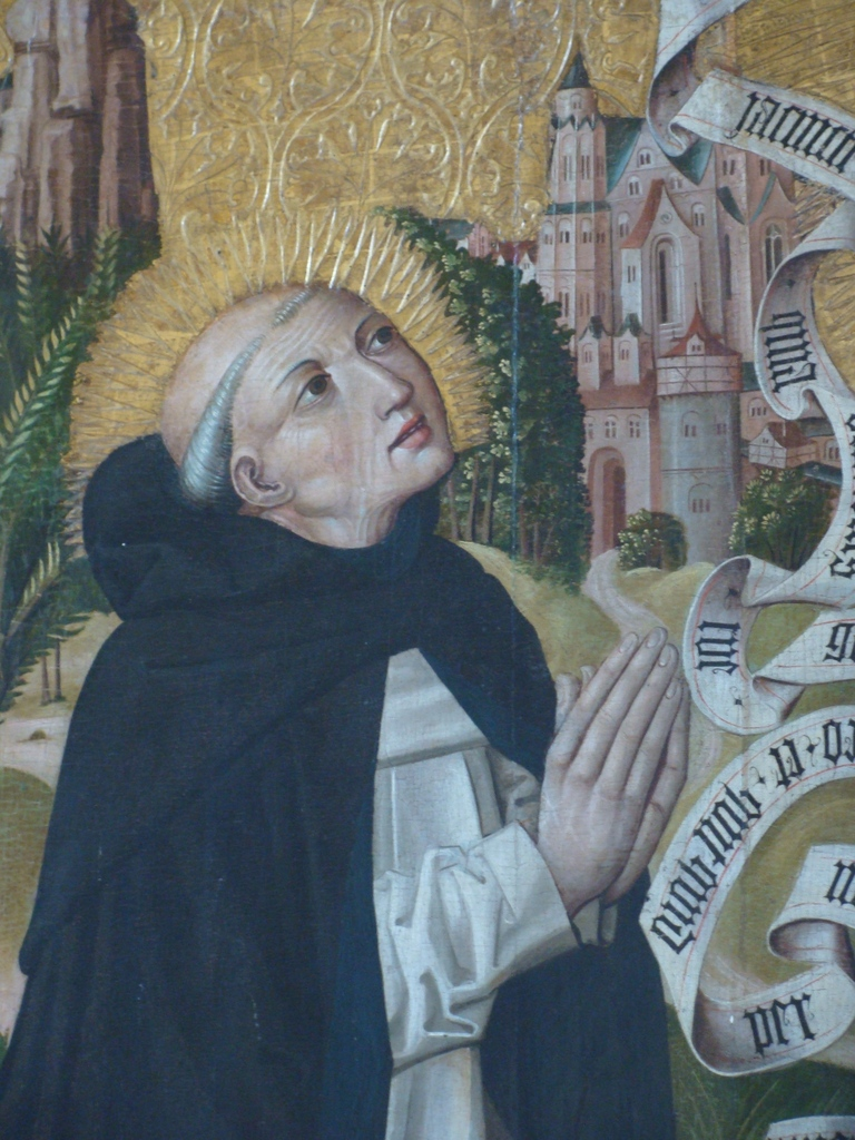 Vision of St.. Jack Odrowąża.